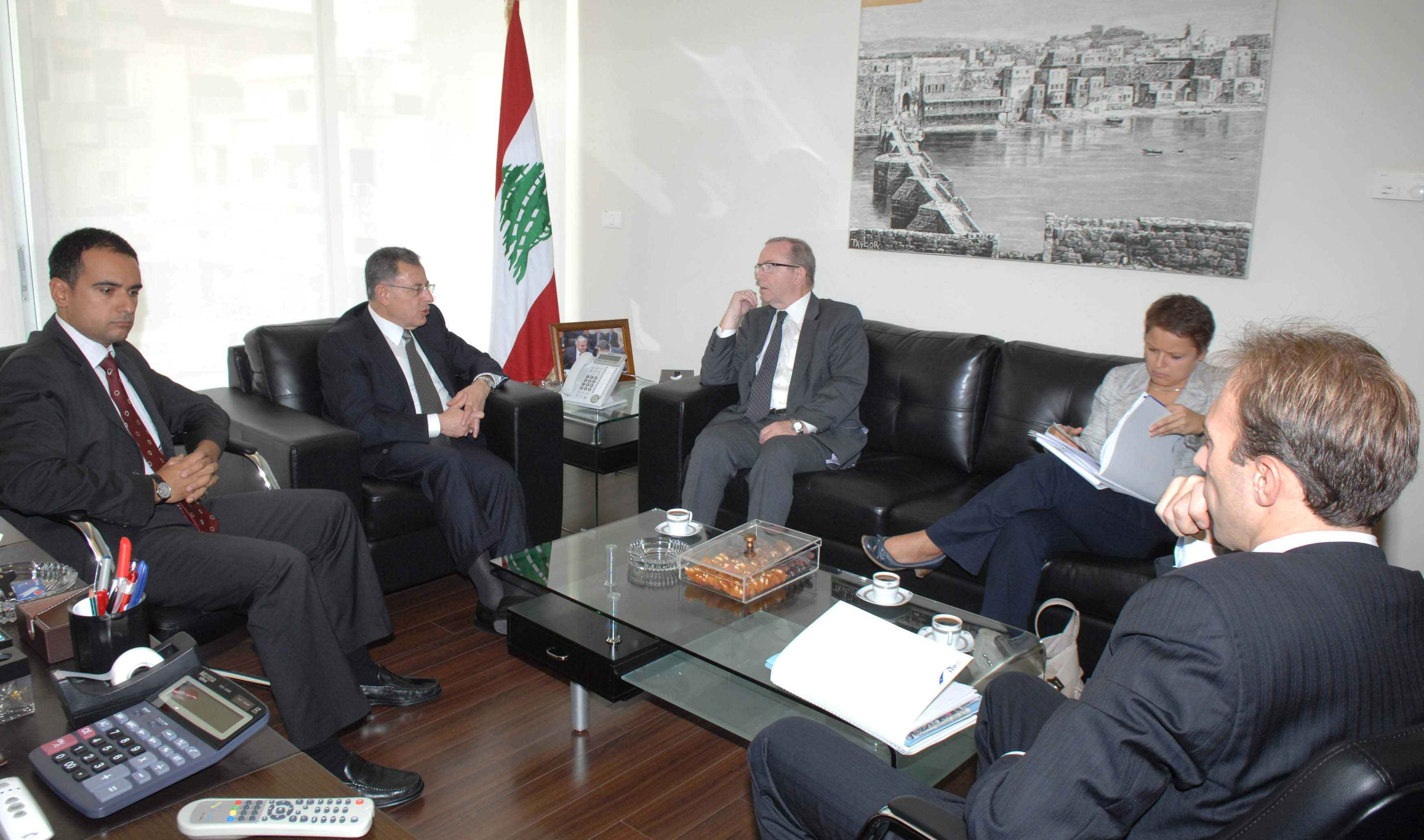 EPP in Lebanon 101020 Former President Fouad Siniora 1